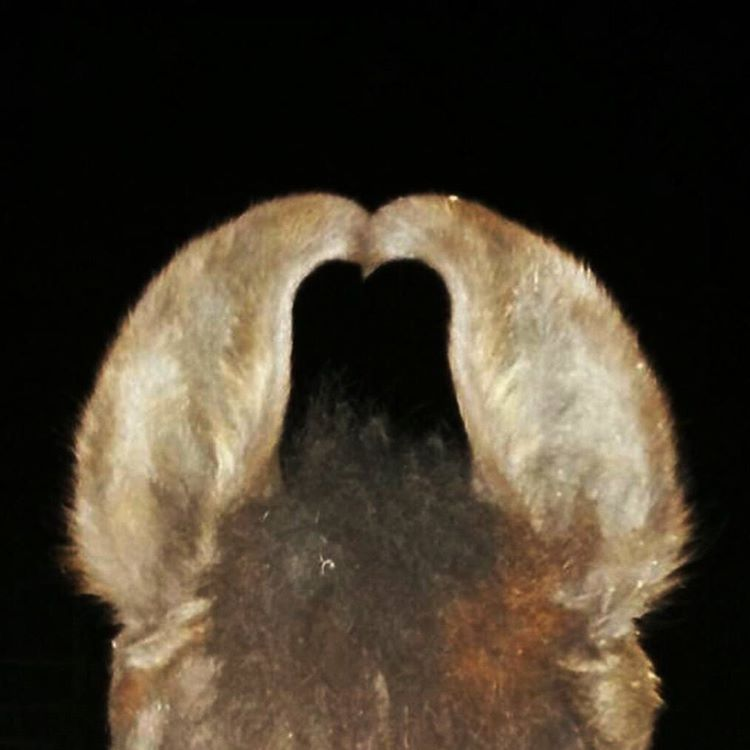 A perfect ear set of a Marwari horse. outside part of ears curving from base to tip and inside stands straight. also tips of ears curling.